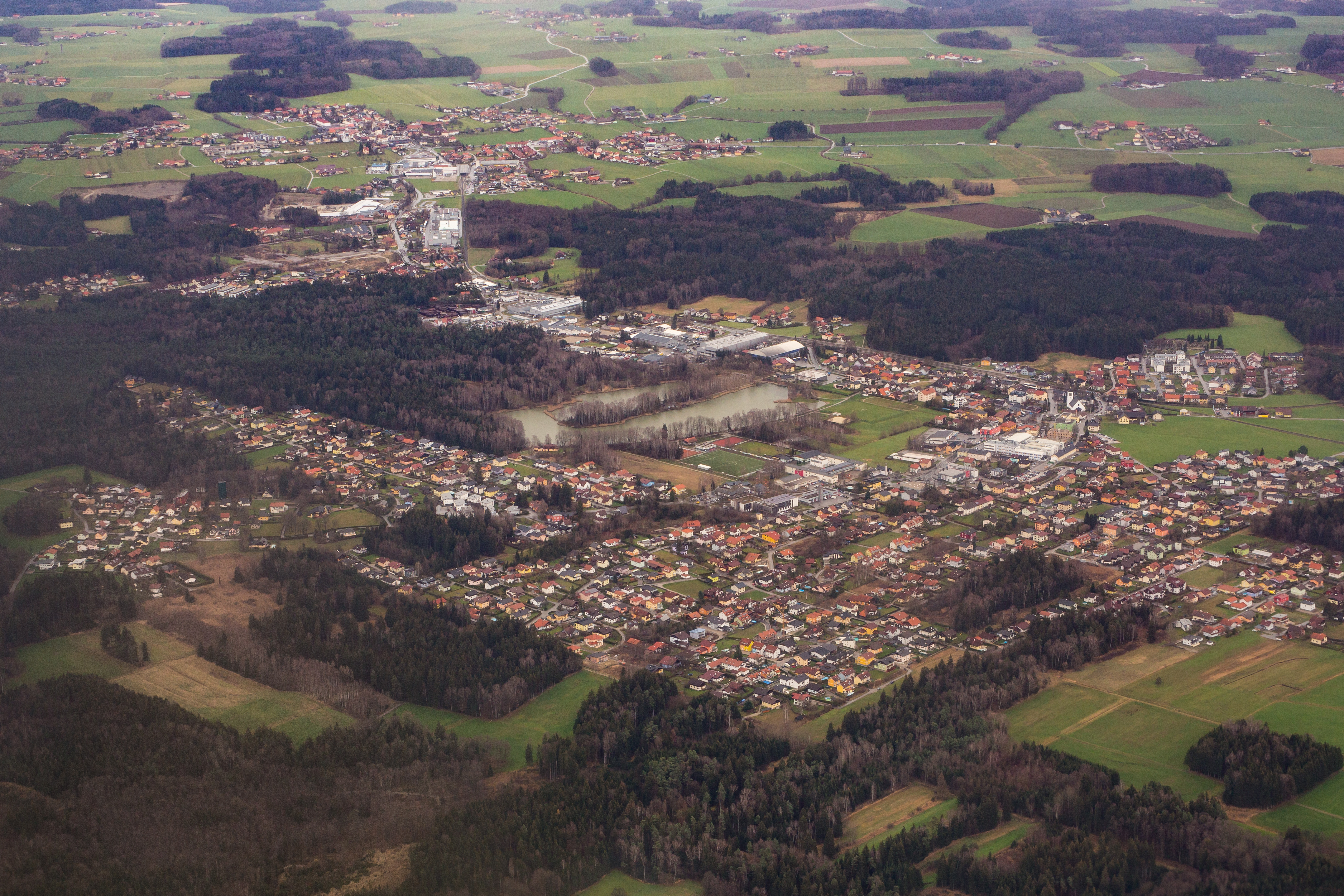 Bürmoos